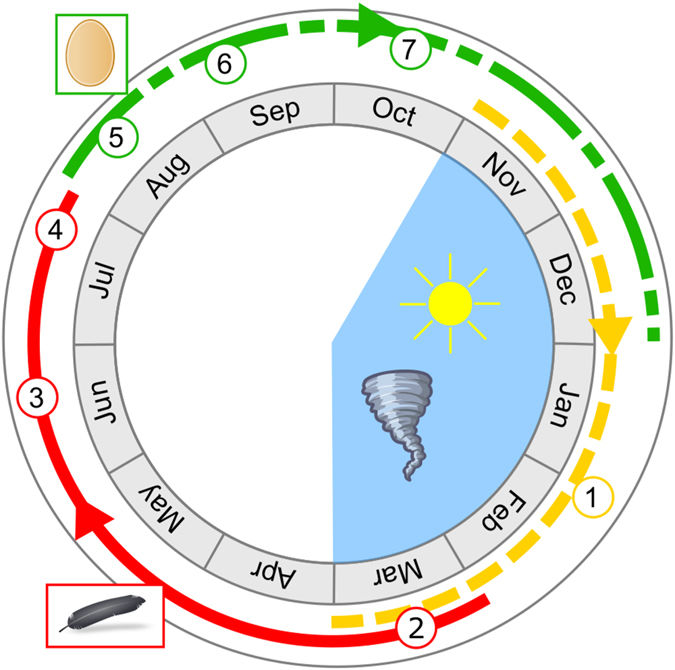 Diagram summarizing the main conclusions of this research. Blue area: indicates the summer period when storms occur between November and March. Yellow line (– – – –) indicates when the lines of arrested of growth (LAG)s [bone layer] could be formed, due to Austral Summer storms. Red line (——) indicates the possible molting period, after summer. Green line (— - — - —) indicates the probable breeding period. ( 1 ) LAG formation. ( 2 ) Beginning of molting. ( 3 ) Mix between downy plumage and new feathers as described in the historical documents. ( 4 ) End of the molting period, when all the feathers are renewed, as described in the historical literature. ( 5 ) In the case of females, the breeding period start with ovulation. ( 6 ) The eggs are laid, hatching later occurs. ( 7 ) The chicks grow rapidly before the next cyclone season.